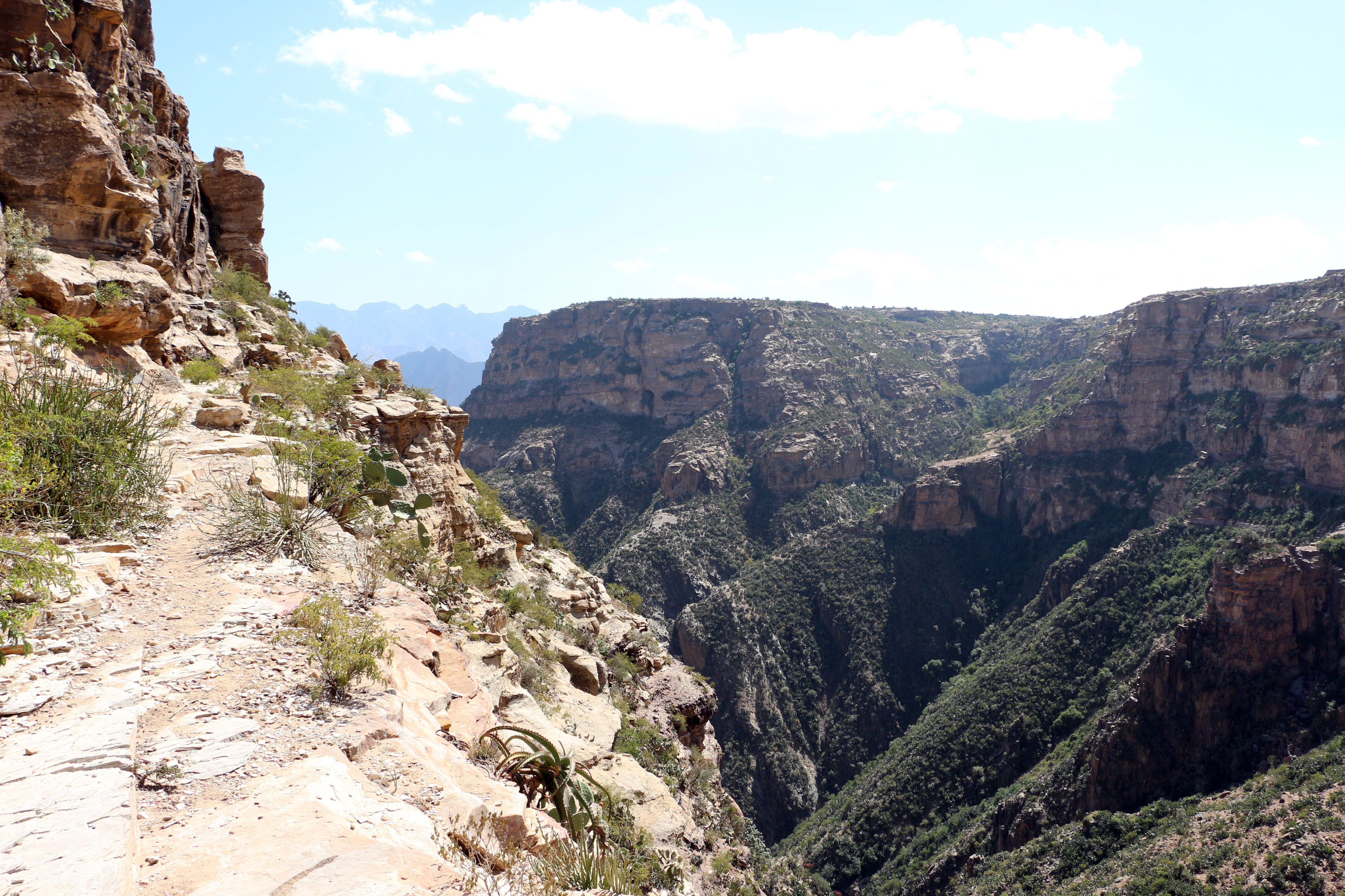 Qohaito